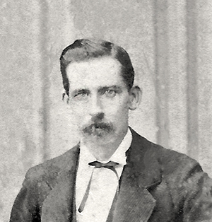 Norman Ferguson, founding partner in Lever, Murphy and Company. Valparaíso ca 1885.